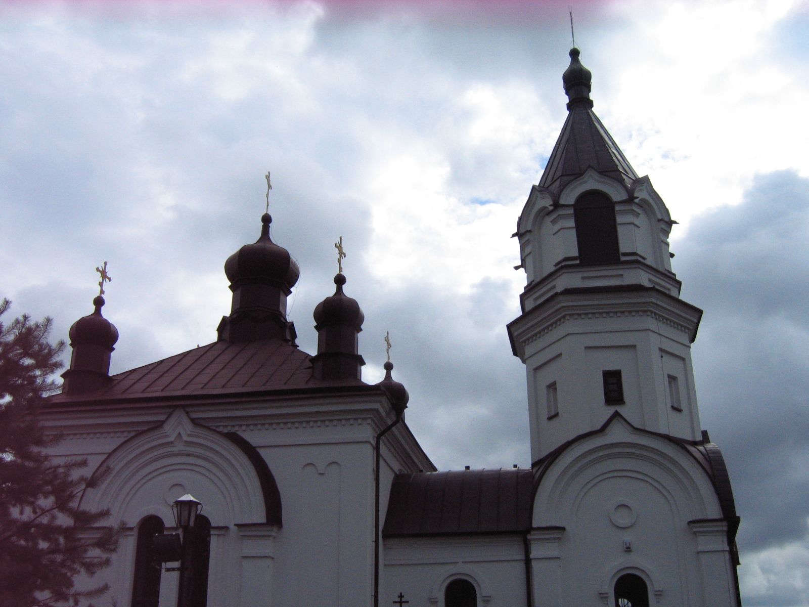 Orthodox church. Our Lady of Guardianship